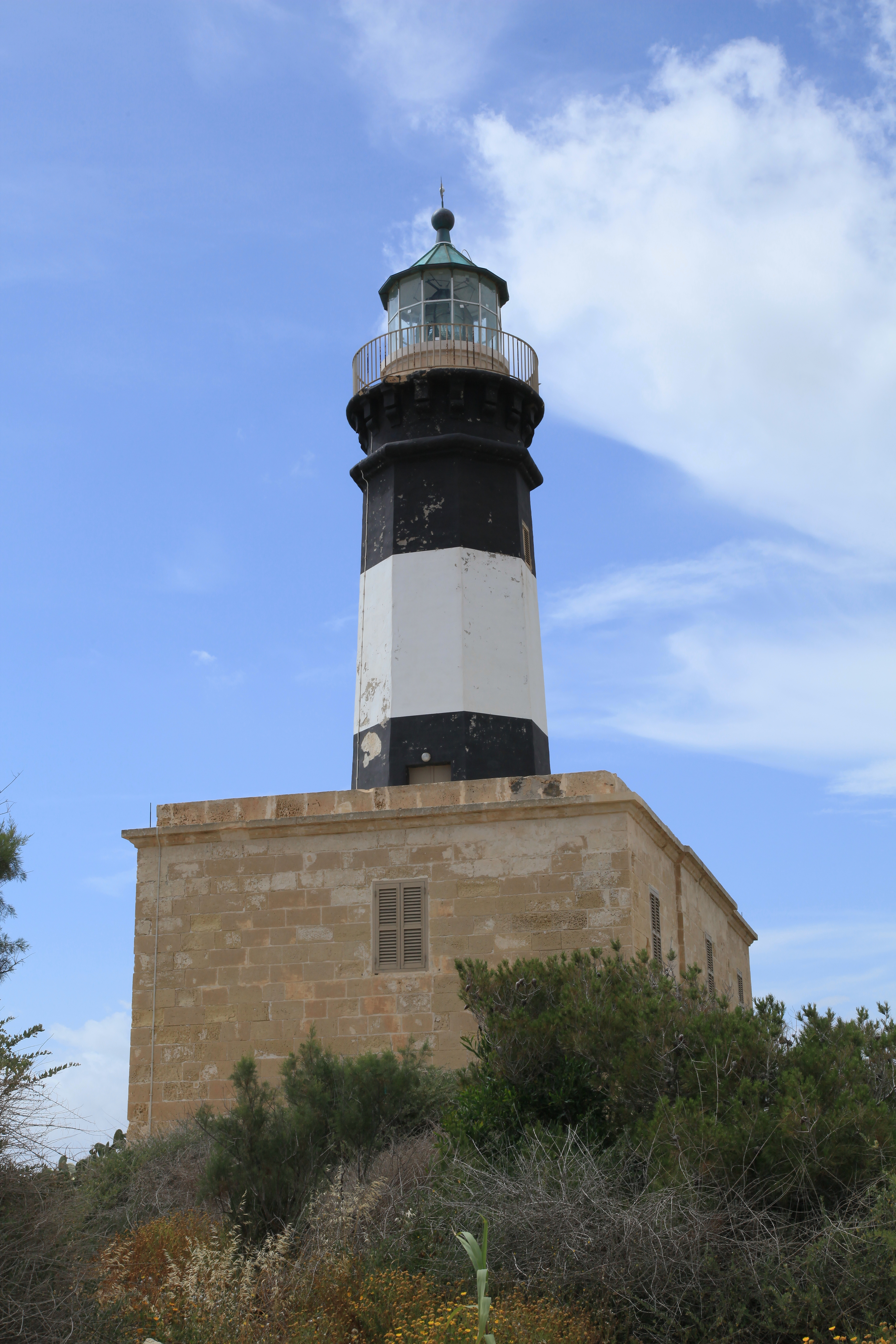 Delimara Lighthouse, Triq Delimara in Marsaxlokk, Malta